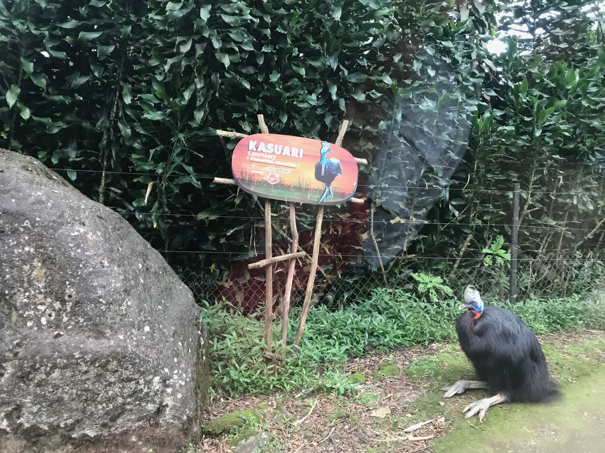 Cassowary at Taman Safari Indonesia Bogor